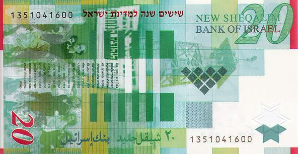 Twenty New Shekel, with special text celebrating Israel's sixty years anniversary